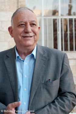 Close up of Dr Mahdi Abdul Hadi